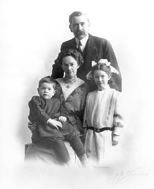 John R. Boyle, and family, Edmonton, Alberta.